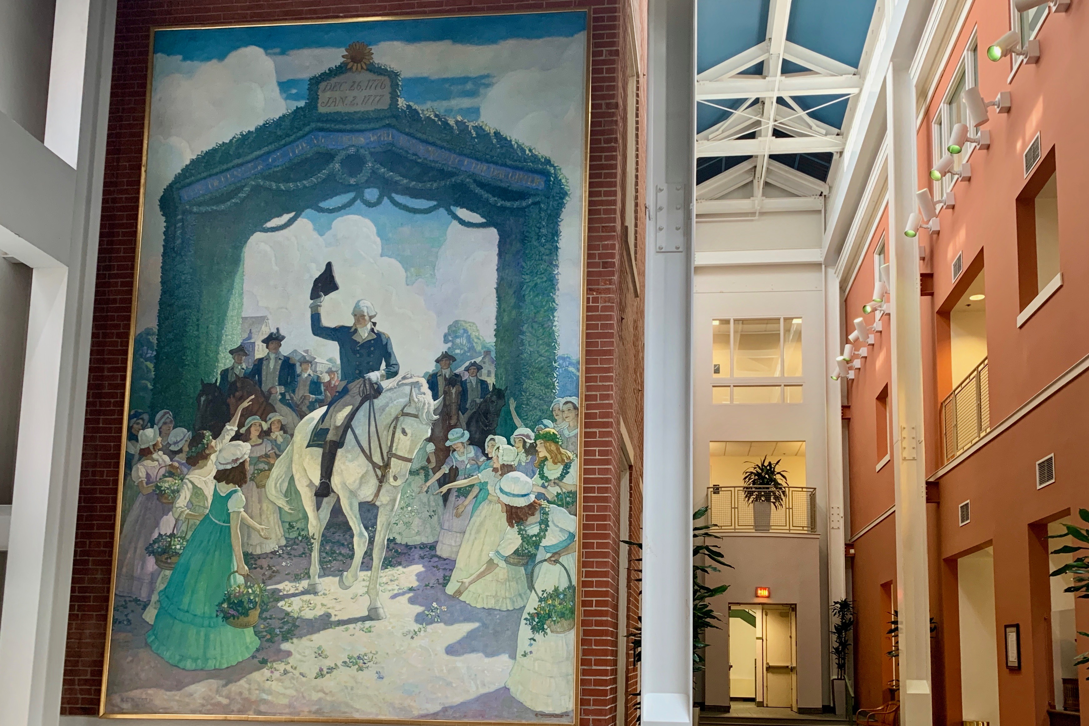 The painting Reception to Washington on April 21, 1789, at Trenton on his way to New York to Assume the Duties of the Presidency of the United States by N. C. Wyeth at Thomas Edison State University in Trenton, New Jersey. It portrays George Washington's reception at Trenton on April 21, 1789.